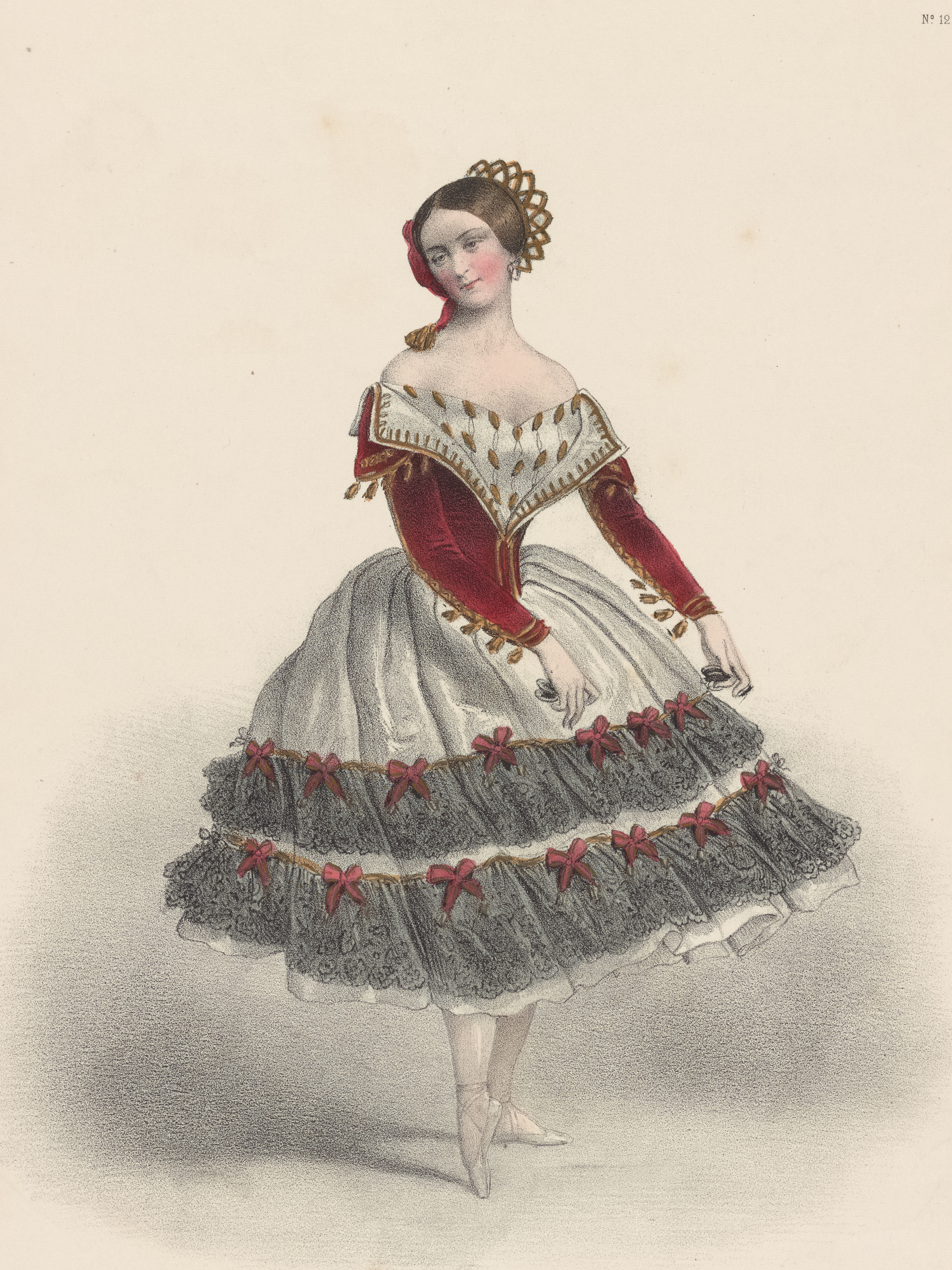 Alophe del. et lith. Plunkett in Albert's opera ballet La favorite, first performed at the Paris Opéra, Dec. 2, 1840. Full length to right, looking left, on left foot, right foot pointed, holding castanets.